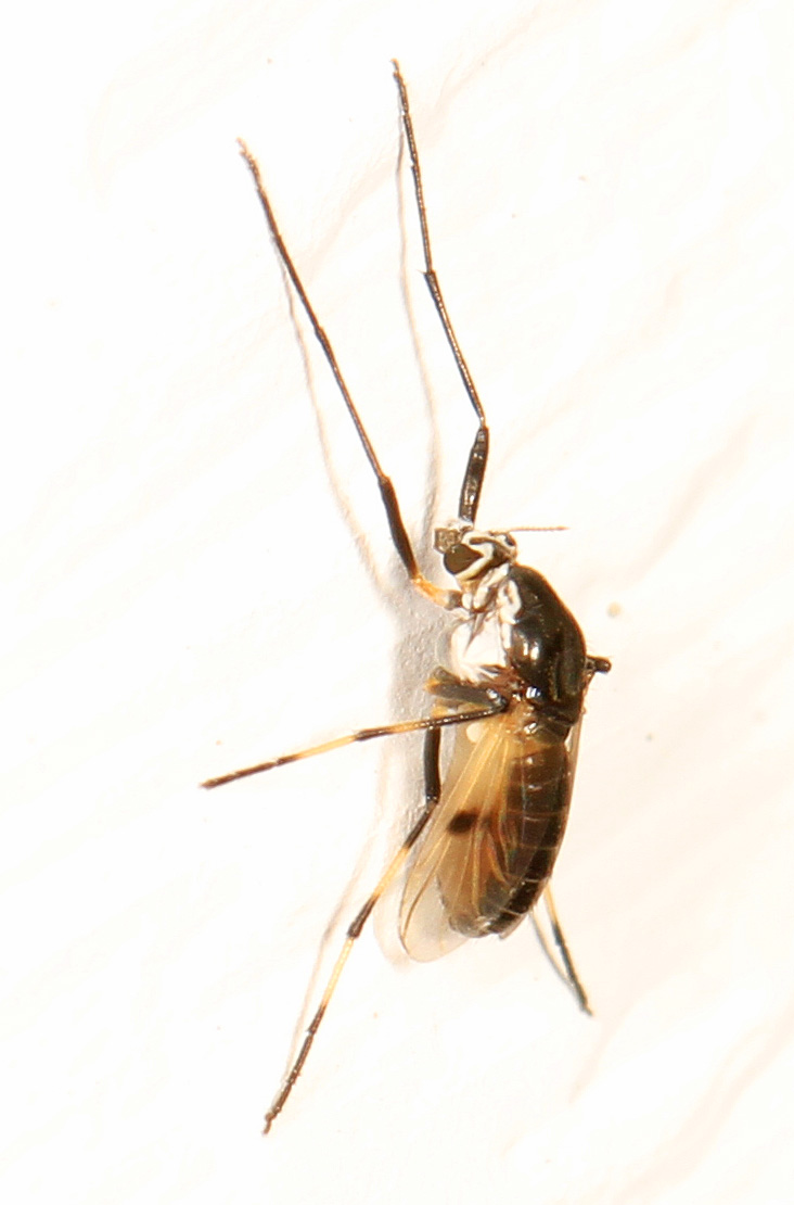 Chironomous Midge - Coelotanypus scapularis, Woodbridge, Virginia.